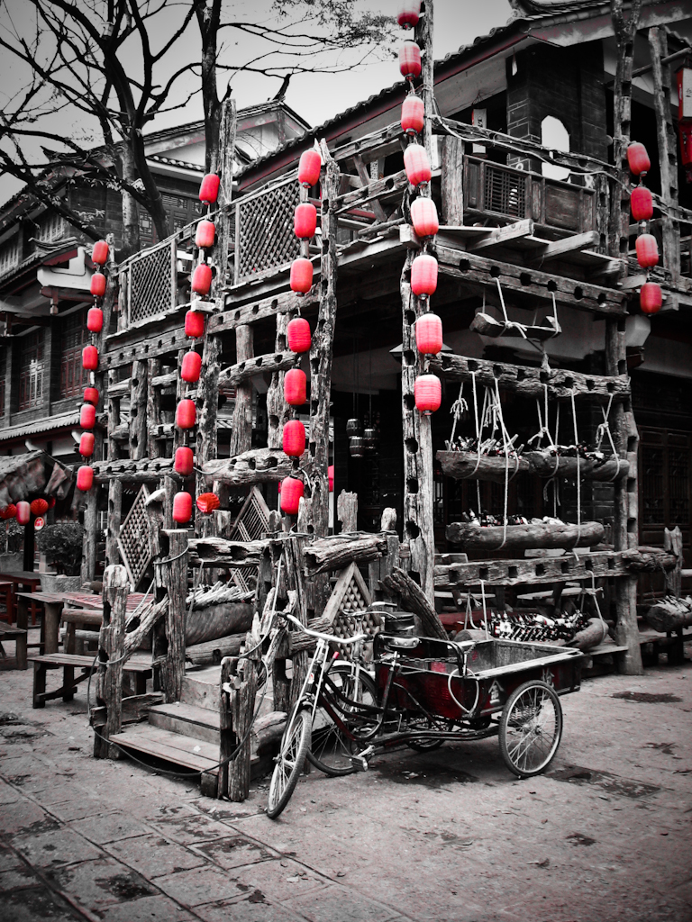 Lijiang Ancient City